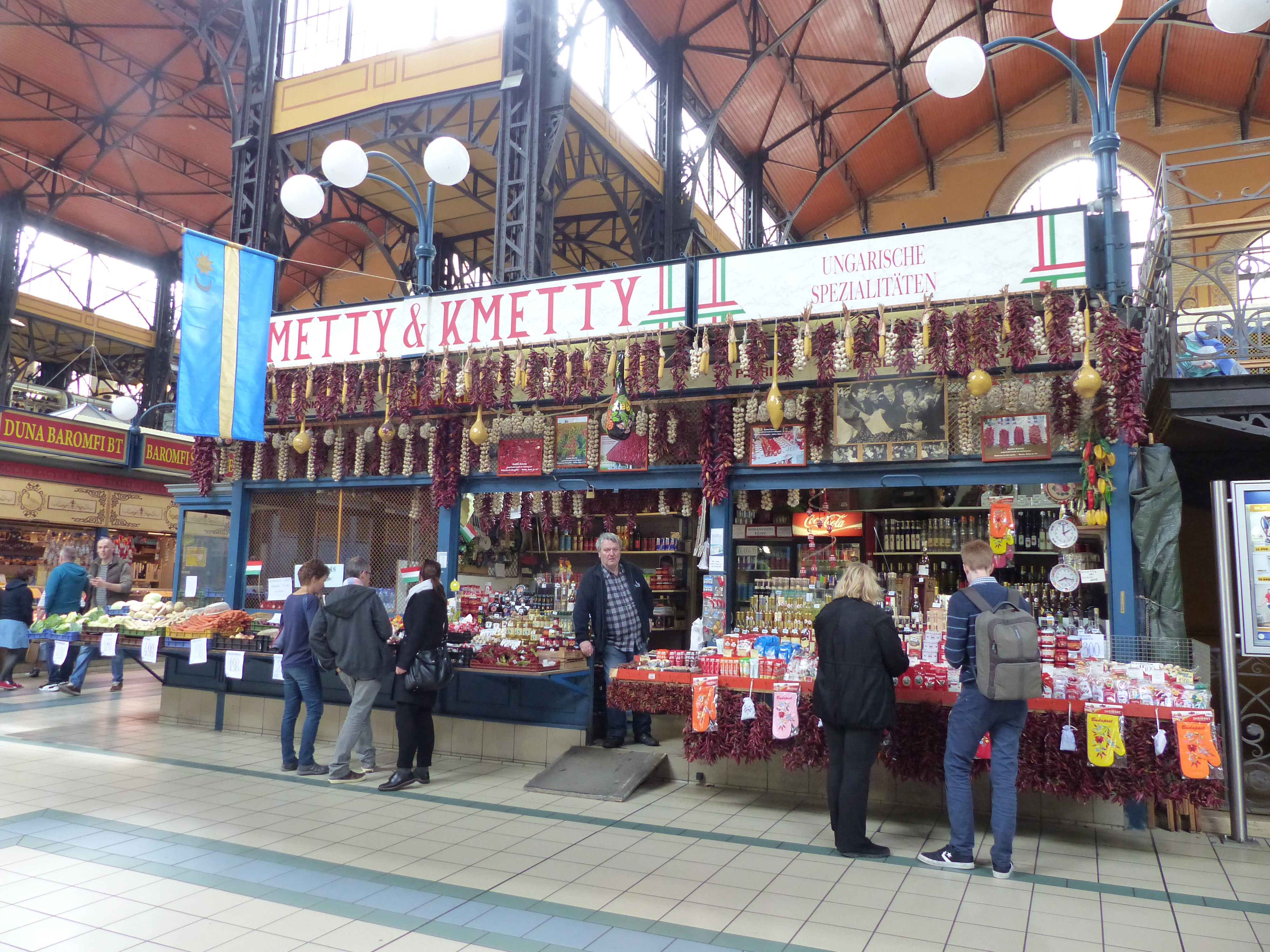 Székely Days 2017. Nagycsarnok, Budapest, Central Europe. Taken on the 26th of April, 2017. Sourceː